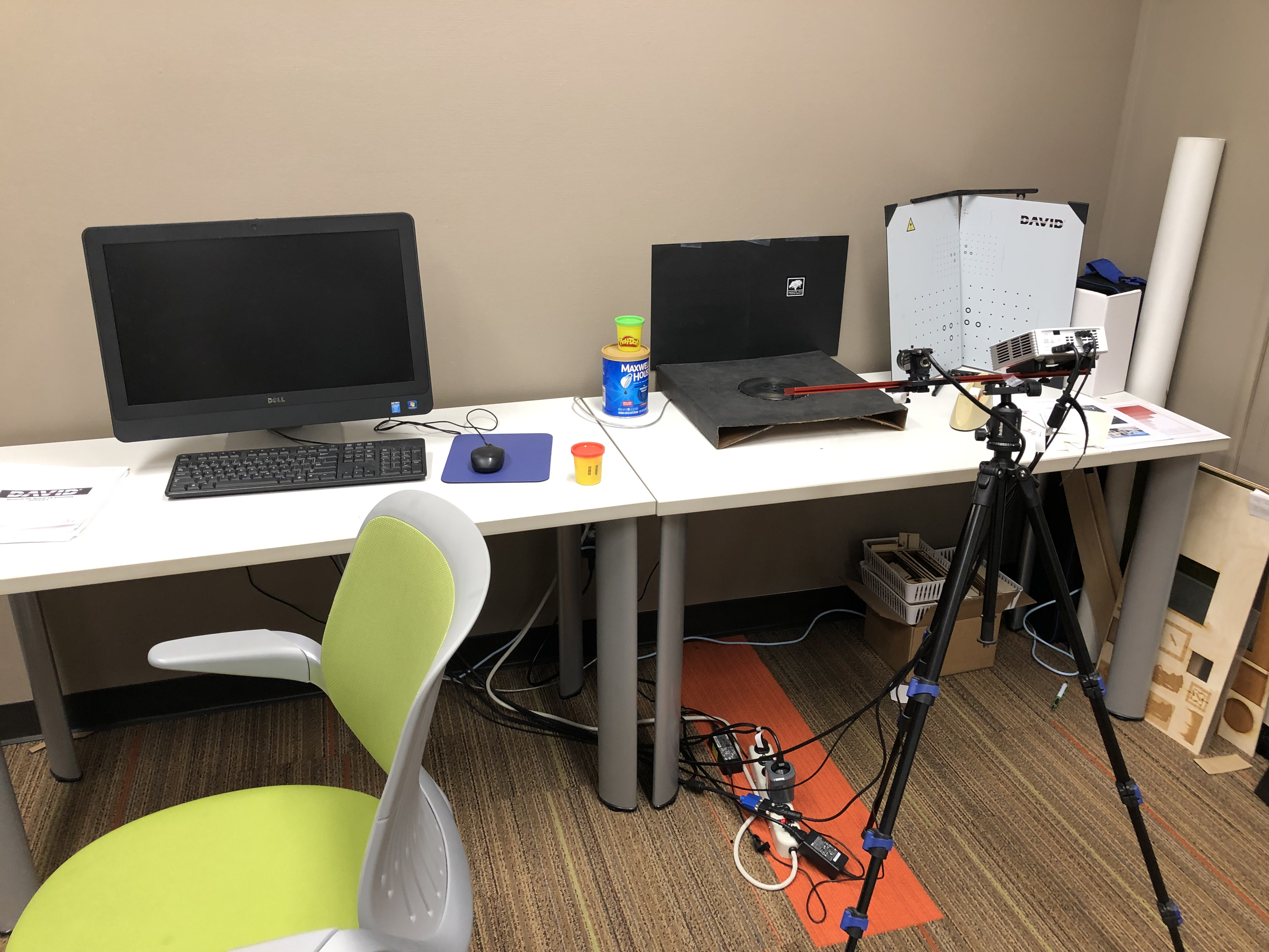 A DAVID-3D scanner in the Collab Lab